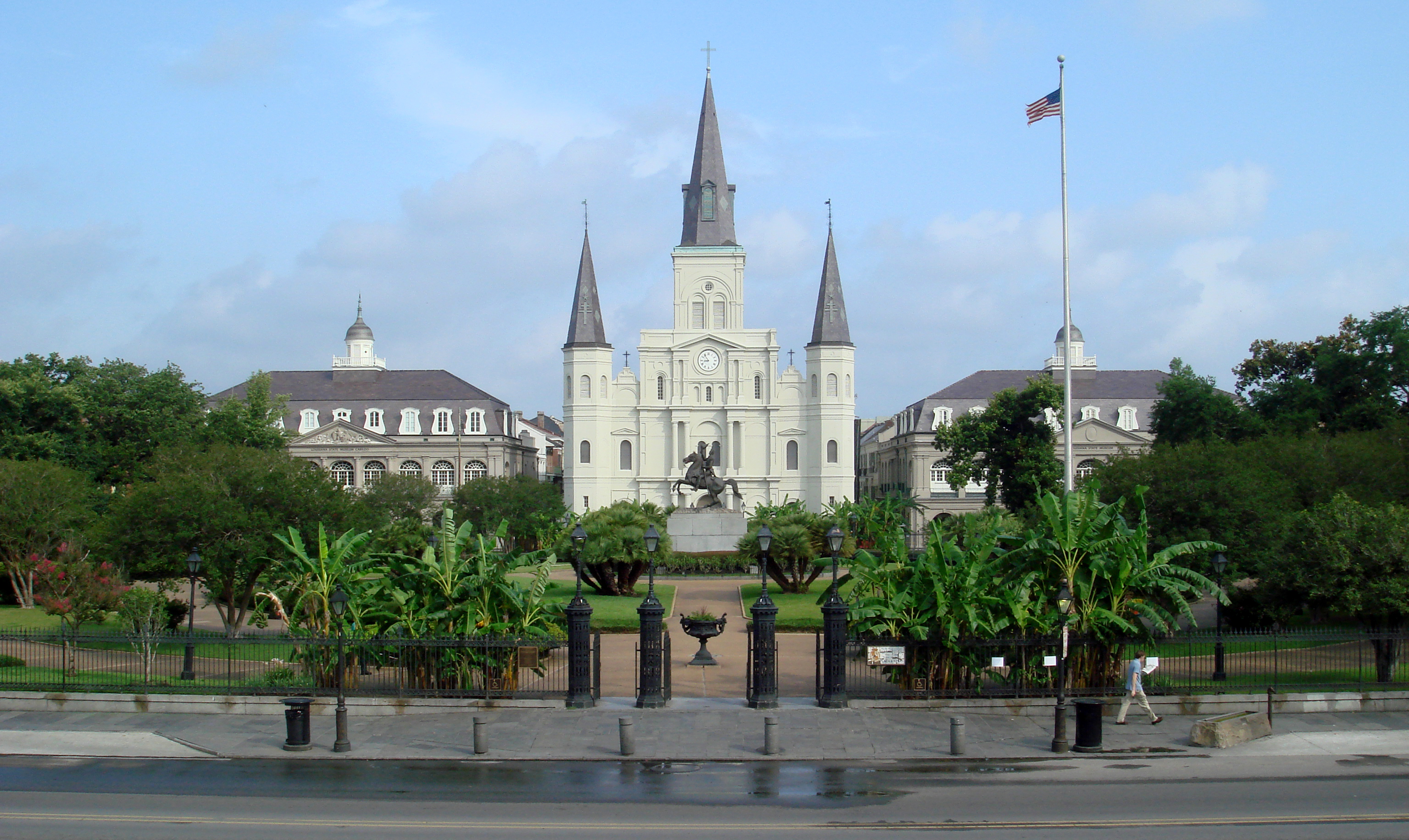 St. Louis Cathedral, with Jackson Square in the foreground New Orleans, Louisiana.